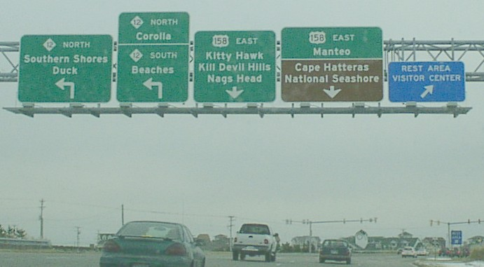 US 158 road sign for Kitty Hawk and Kill Devil Hills, North Carolina, USA.